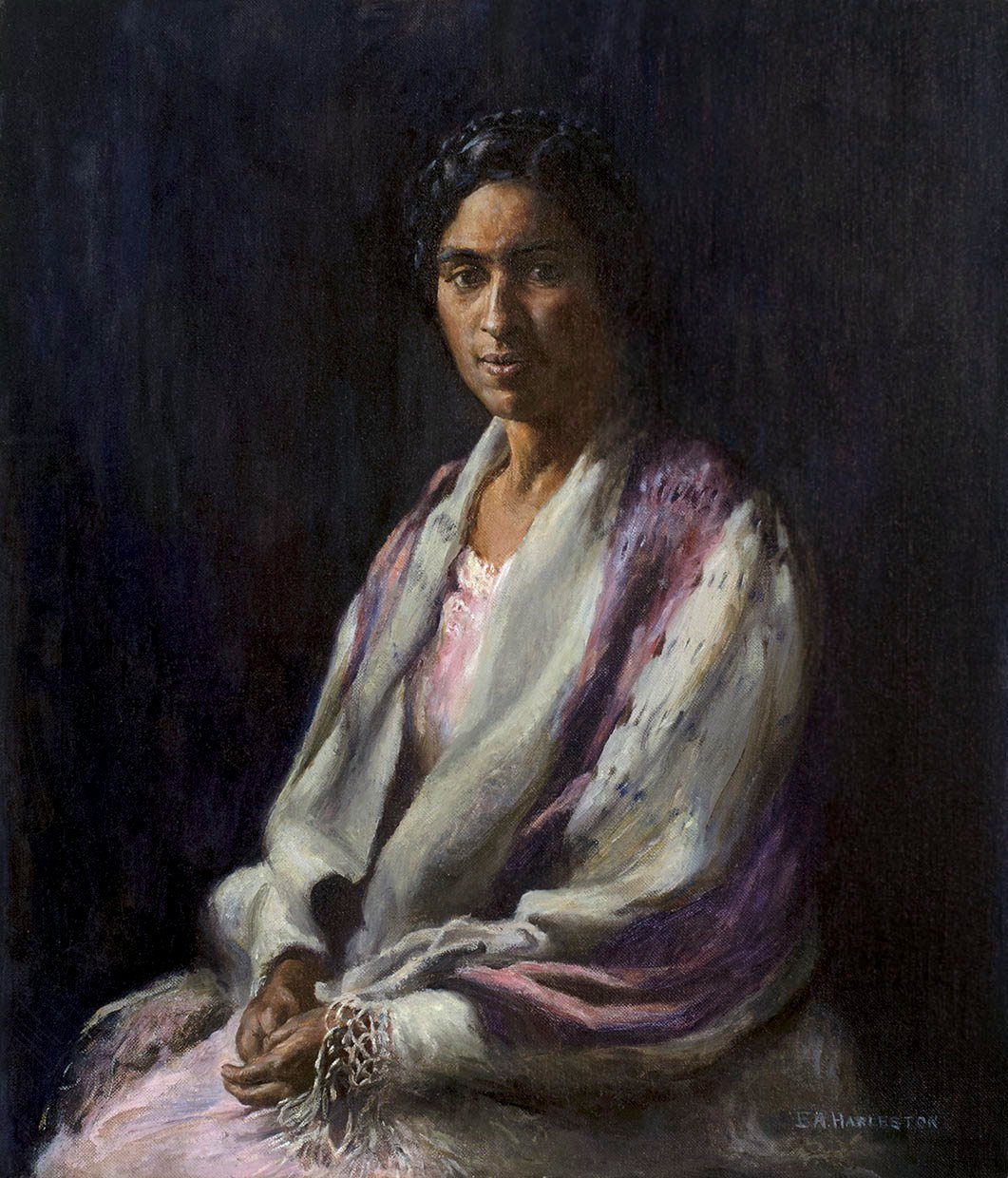 Miss Bailey with the African Shawl by Edwin Augustus Harleston, oil on linen canvas, 30.25 x 26, c 1930, Johnson Collection, Spartanburg, South Carolina